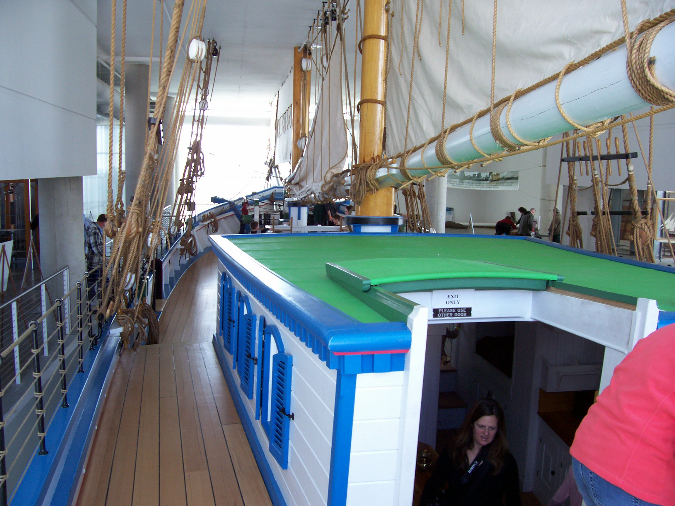 Discovery World replica schooner in Milwaukee, Wisconsin, USA.